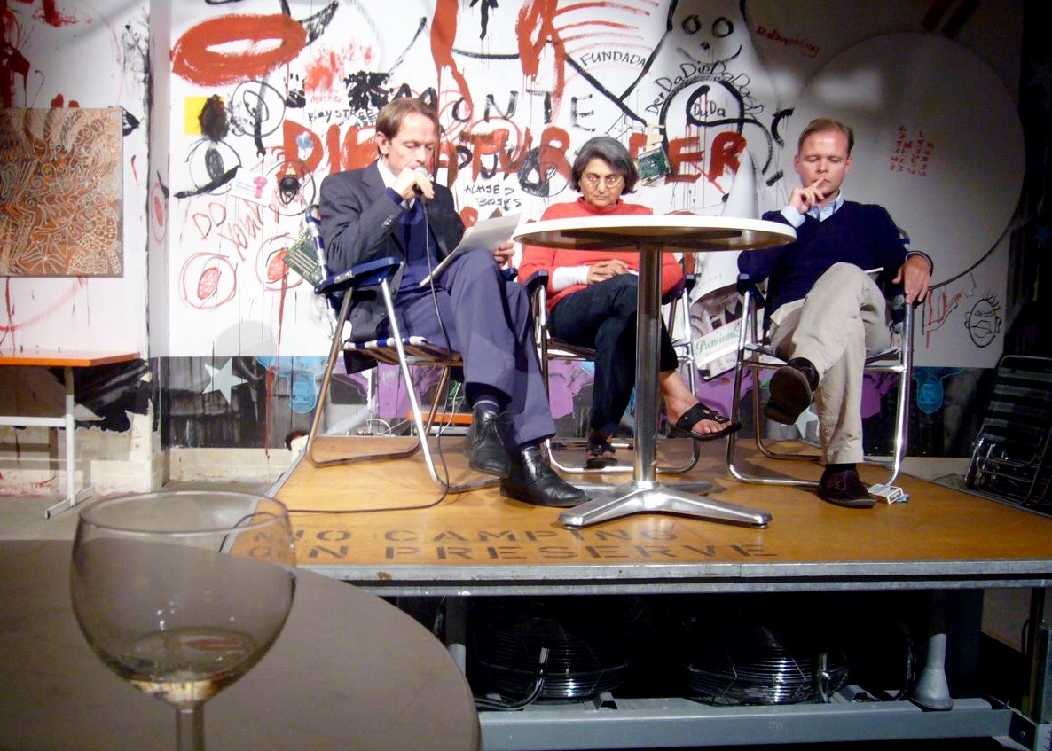 David Woodard, Ma Anand Sheela and Christian Kracht reading at Cabaret Voltaire, Zürich